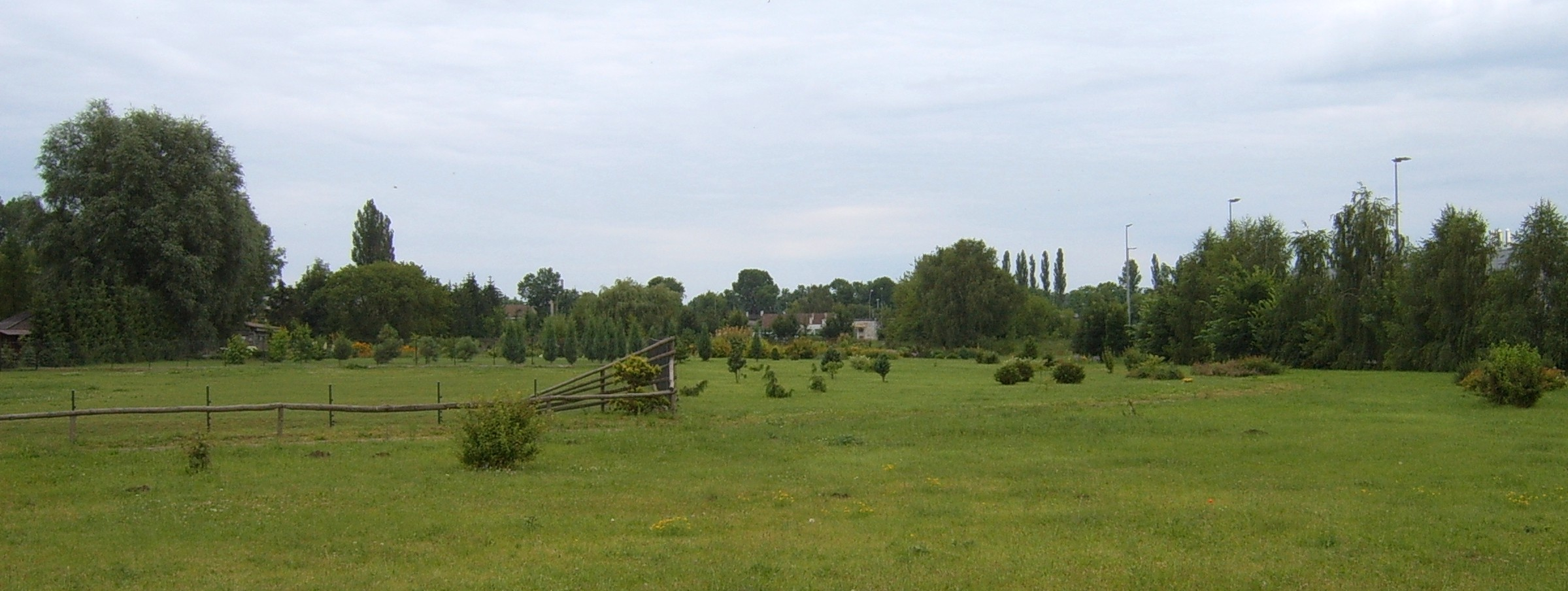 Botanical part of Zoo in Zamość